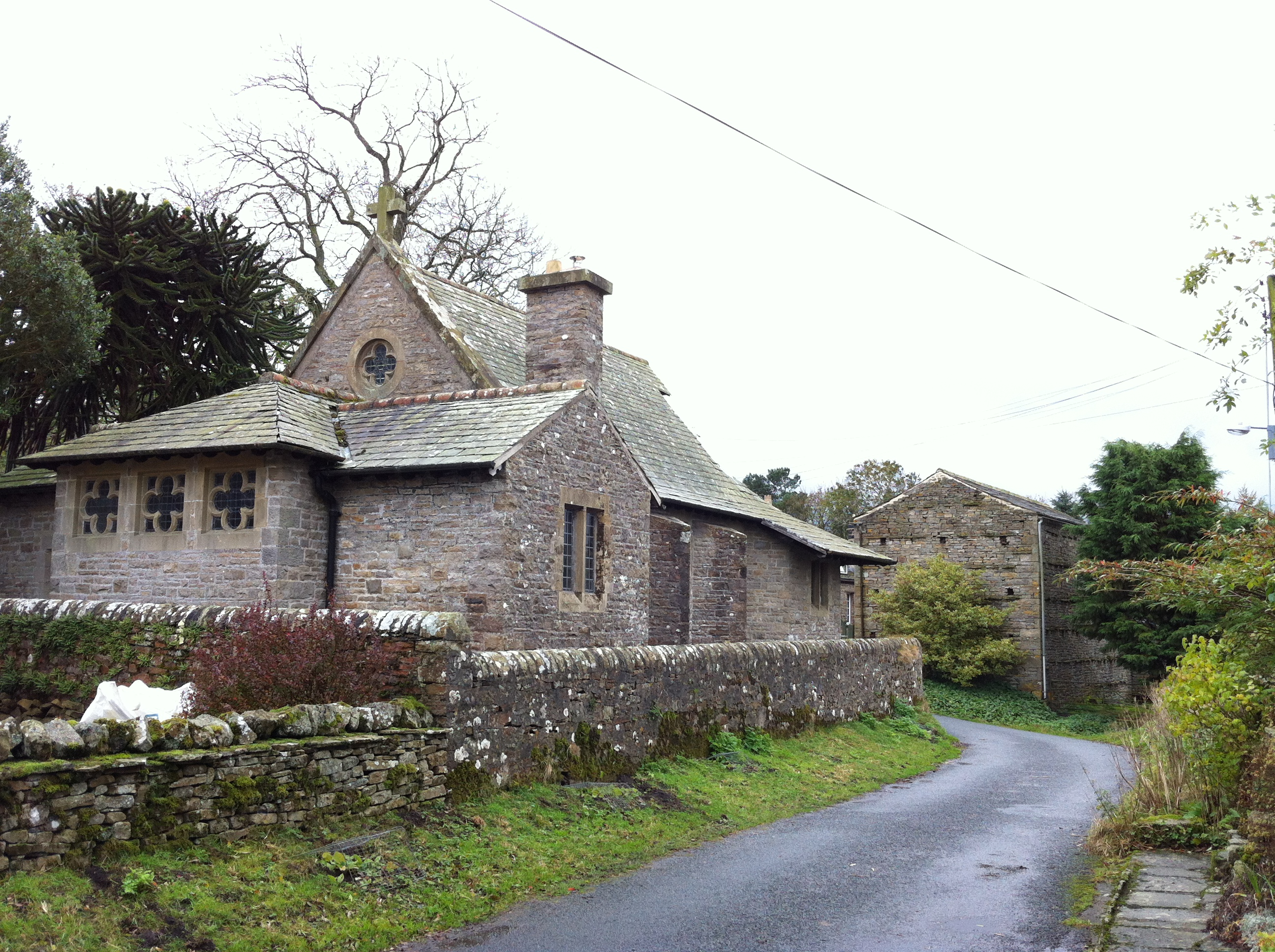 The east and north sides of Stalling Busk church.